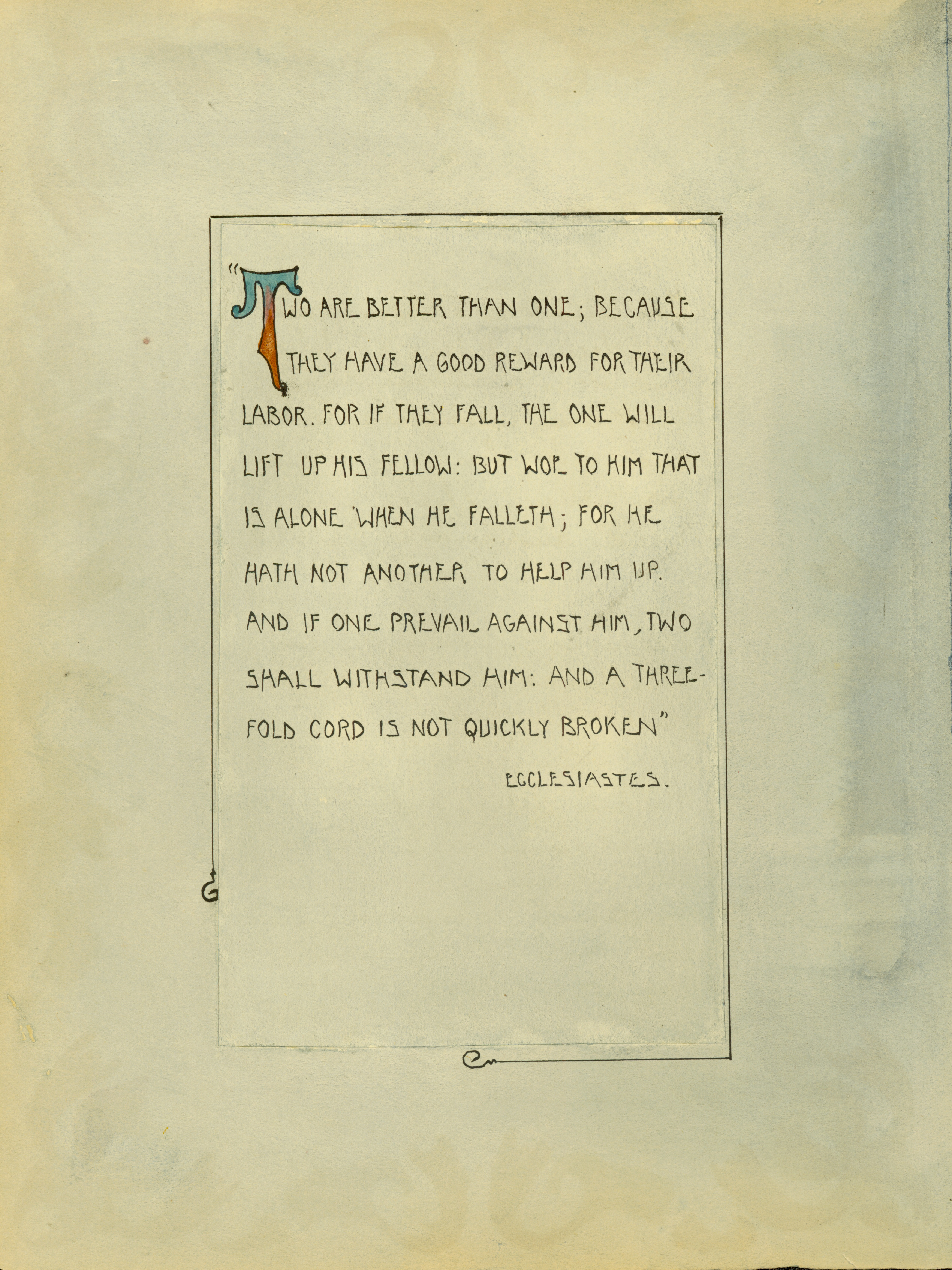 Quote from Ecclesiastes.Title:The Potter's Wheel, Volume 1, Number 1, page 33, November 1904